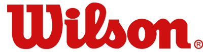 Wilson Sporting Goods logo